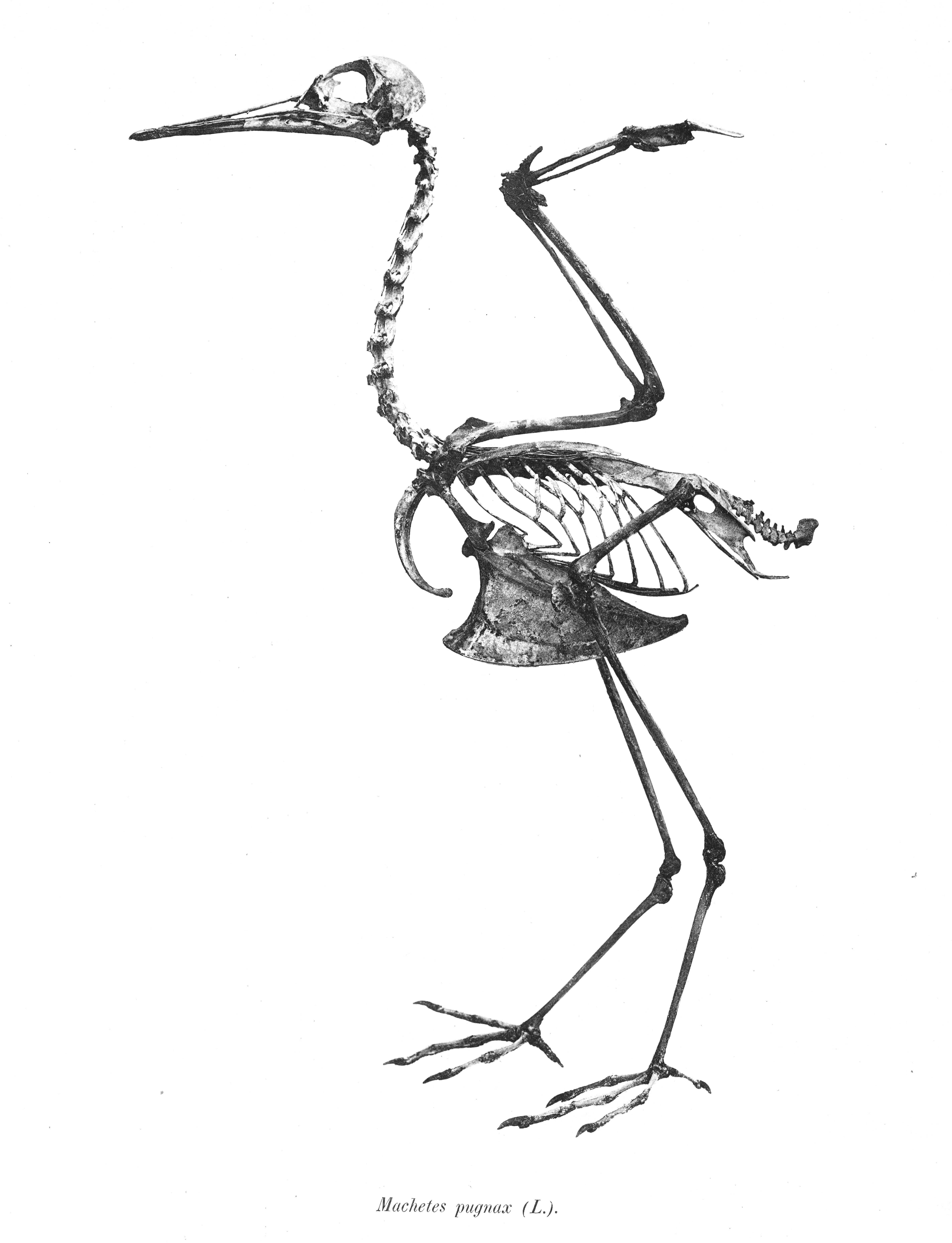 Philomachus pugnax